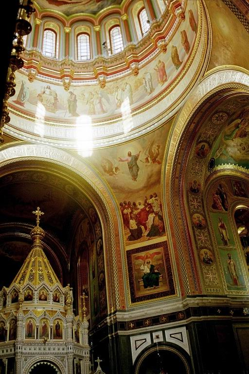 Inside view of Cathedral of Christ the Saviour, Moscow